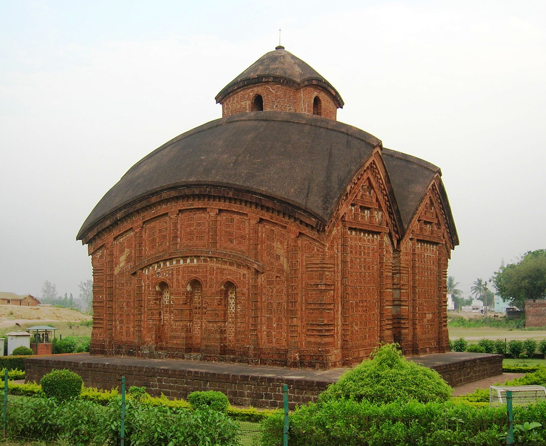 Jor-Bangla Temple or Keshta Roy Temple (c. 1655), Bishnupur, Bankura dist., West Bengal, India.